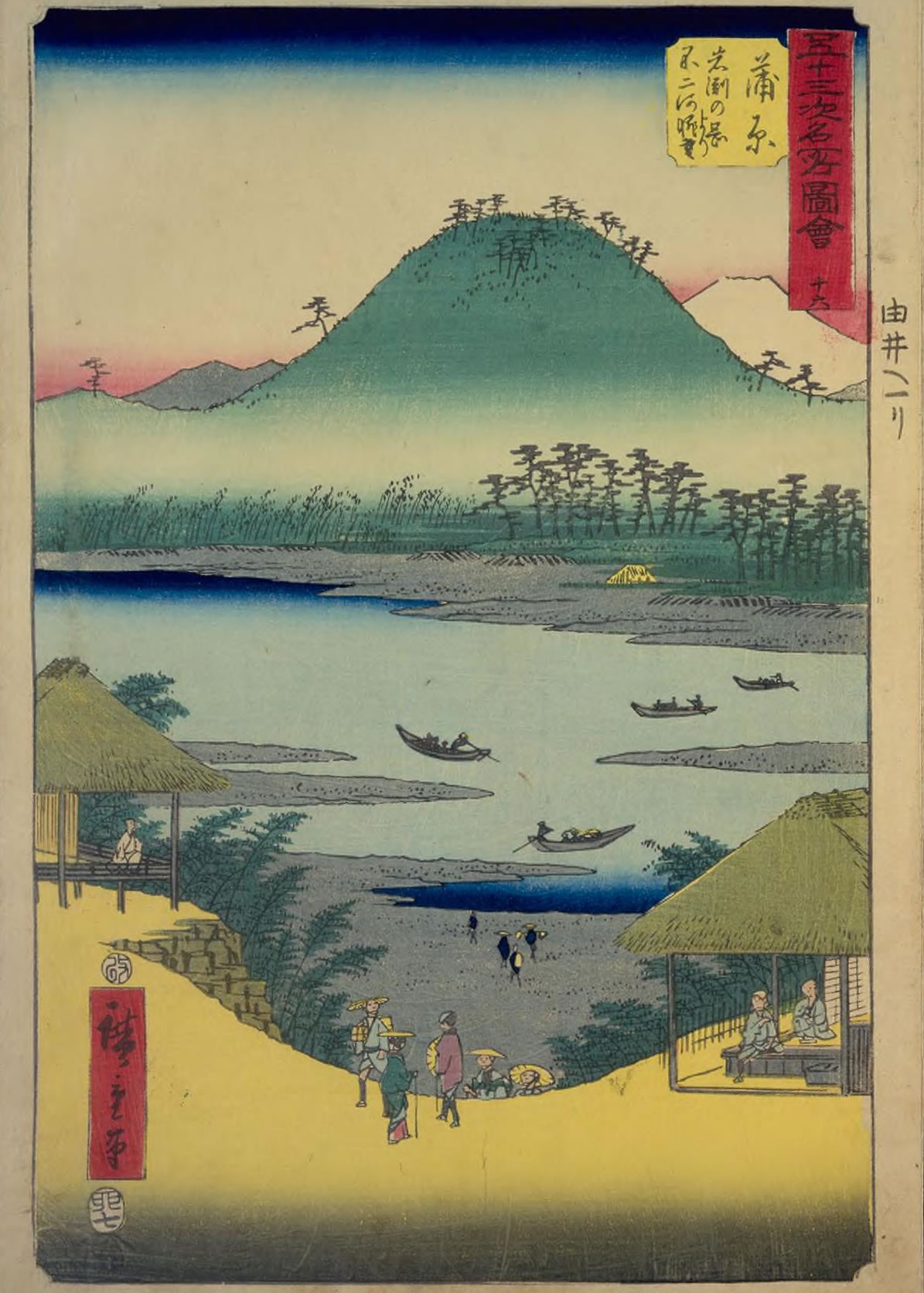 "Famous Places of the Fifty-three Stations of the Tōkaidō (GojūSanTsugi-MeishoZu'e), No. 16, Kanbara" : View of the Fuji River from Iwabuchi Hill.